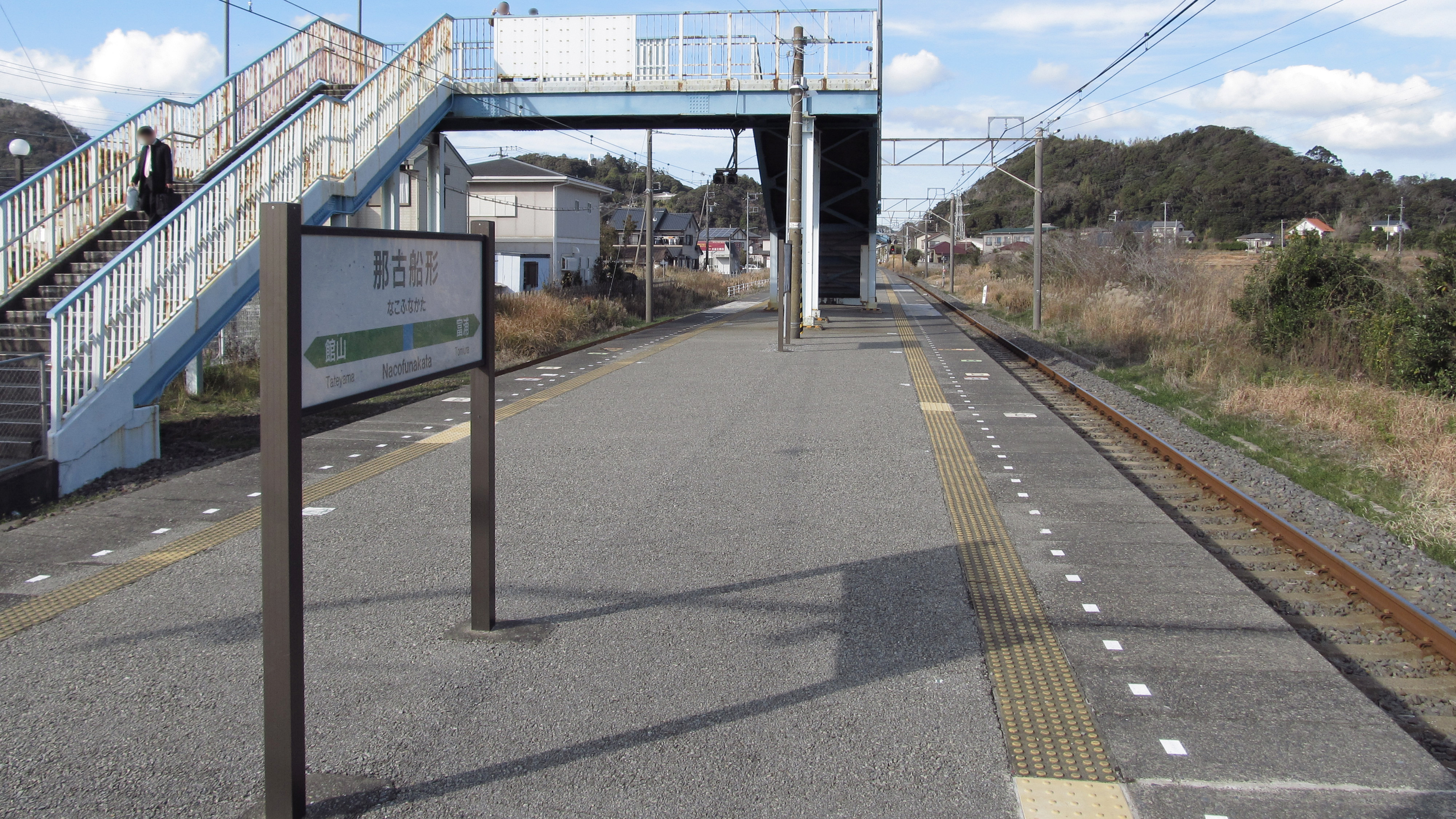 The platform at Nakofunakata Station on the Uchibō Line in Tateyama city, Chiba prefecture, Japan